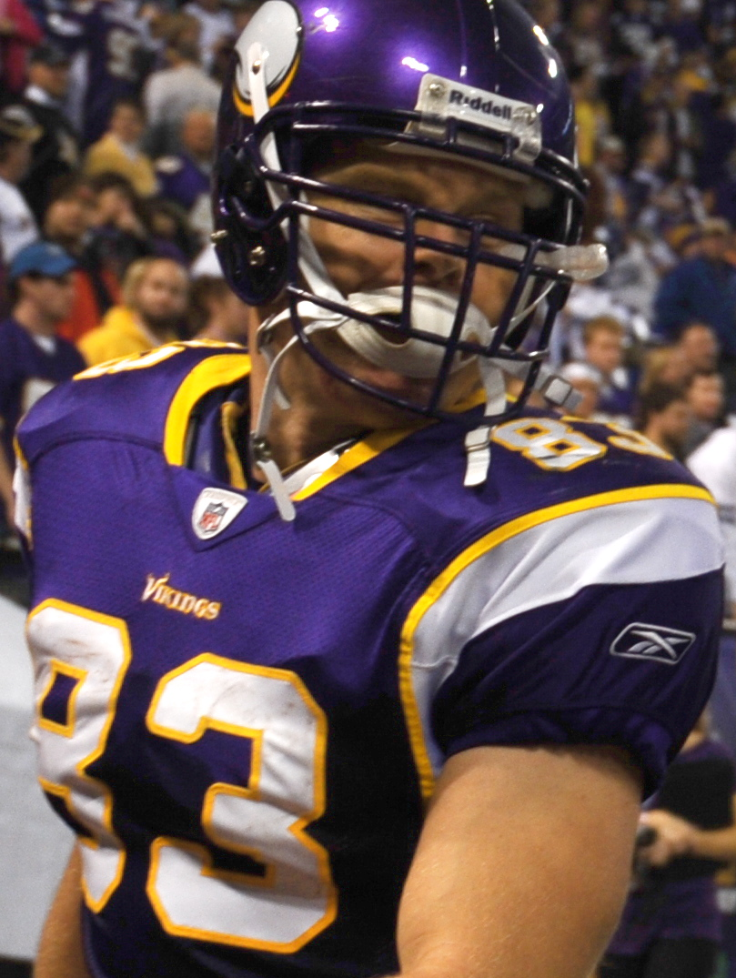 Minnesota Vikings tight end Jeff Dugan after Lions at Vikings 10-27.